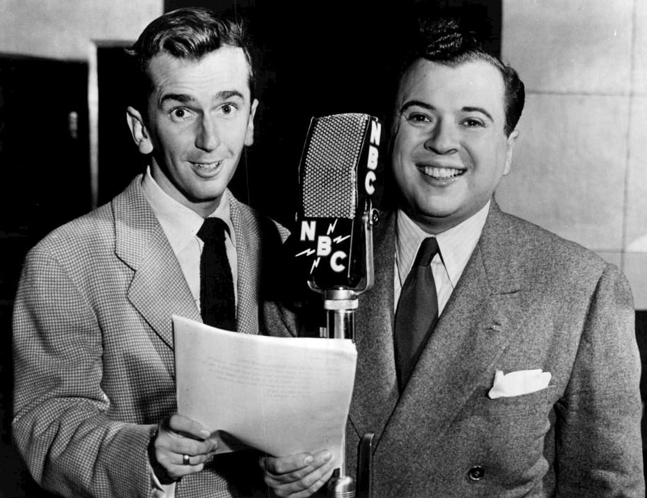 Photo of Jack Kelk (Homer Brown) and Ezra Stone (Henry Aldrich) from the radio program The Aldrich Family.